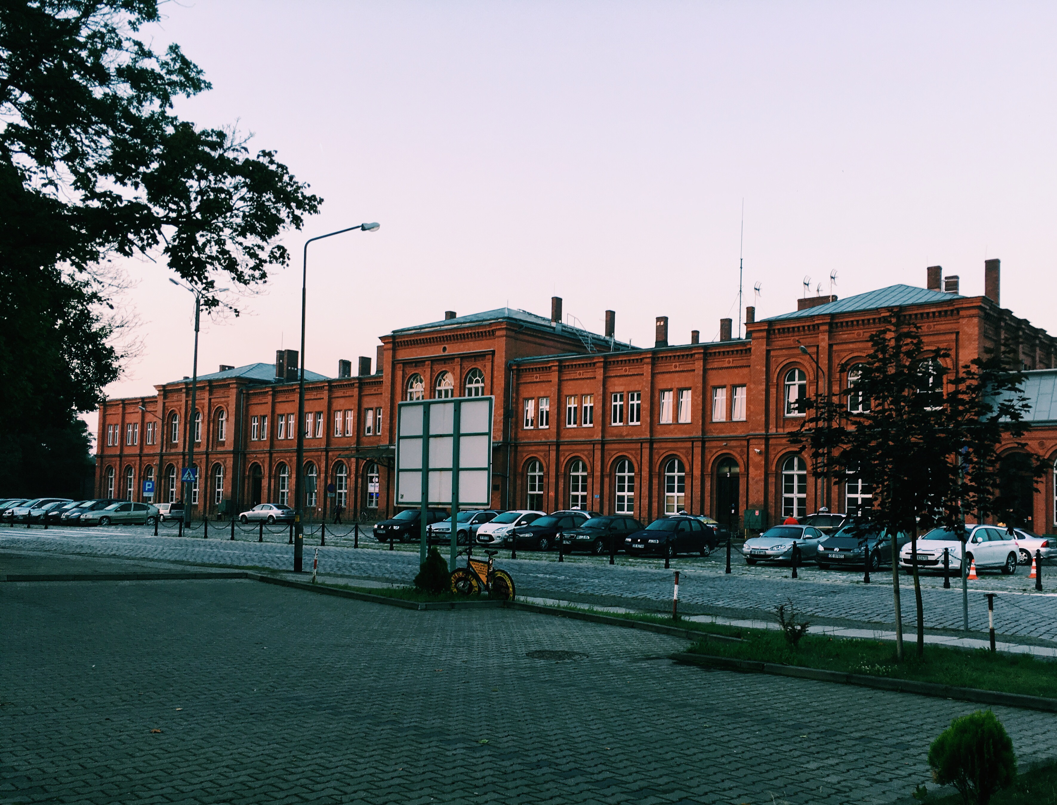 Early morning photograph of Brzeg railway station.